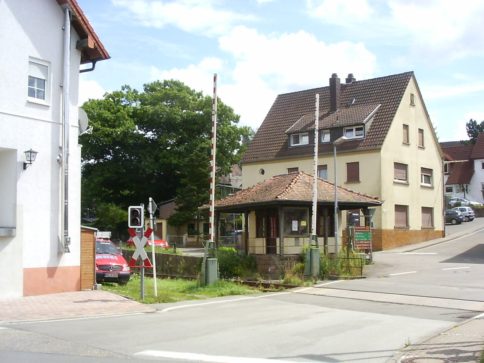 Level crossing in Münchweiler an der Rodalb.